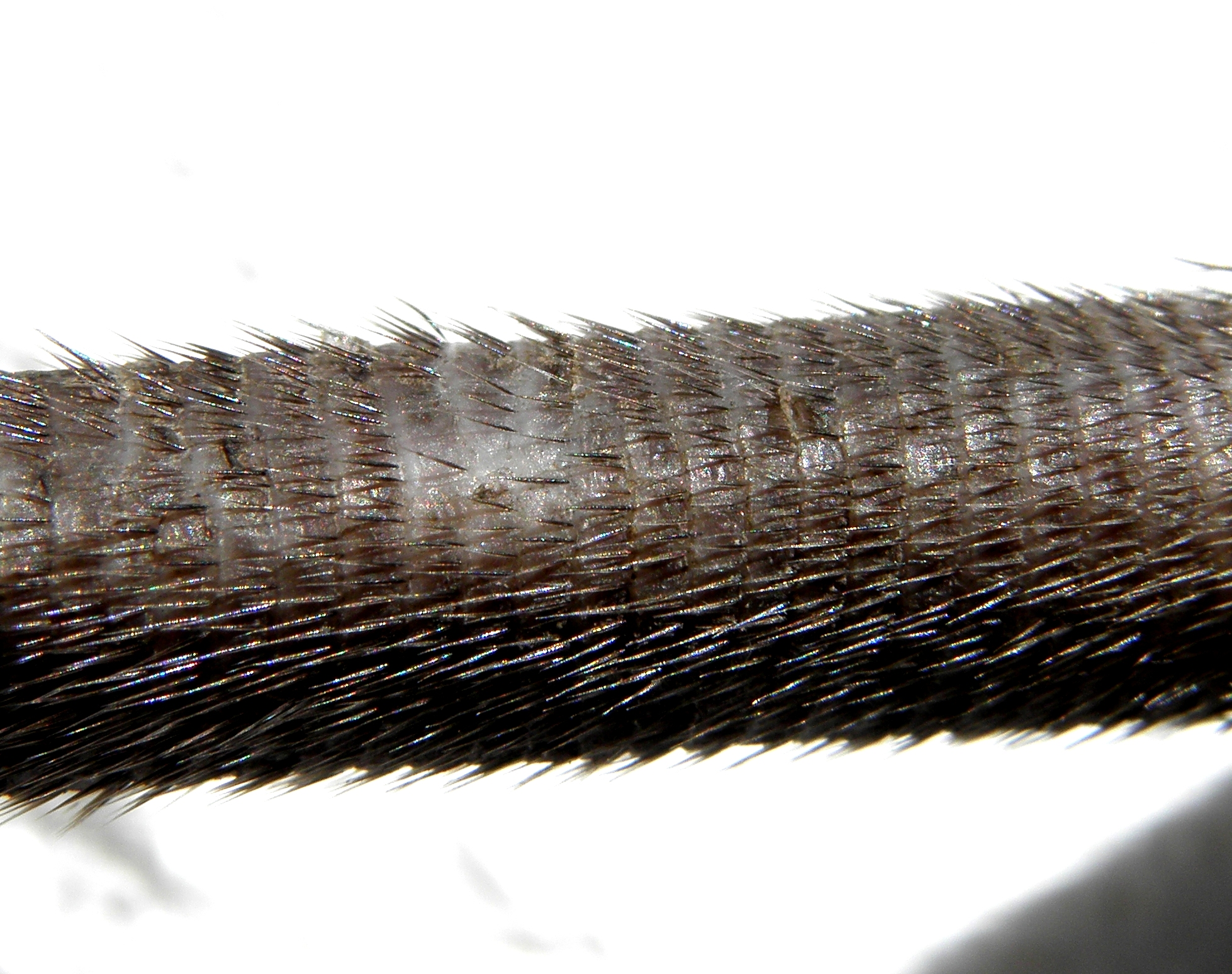 Tail of Black Rat (Rattus rattus) -detail-.